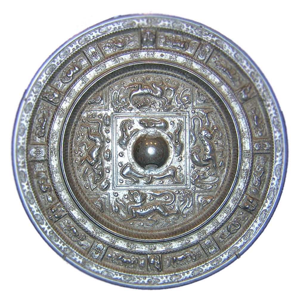 Mirror with the twelve divisions of the Chinese Zodiac. Sui dinasty (581 - 618 AD). Bronze. Belongs to the Guimet Museum (Paris).